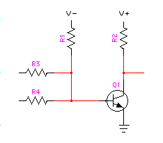 Resistor–transistor logic (RTL) Nor gate using an NPN bipolar transistor